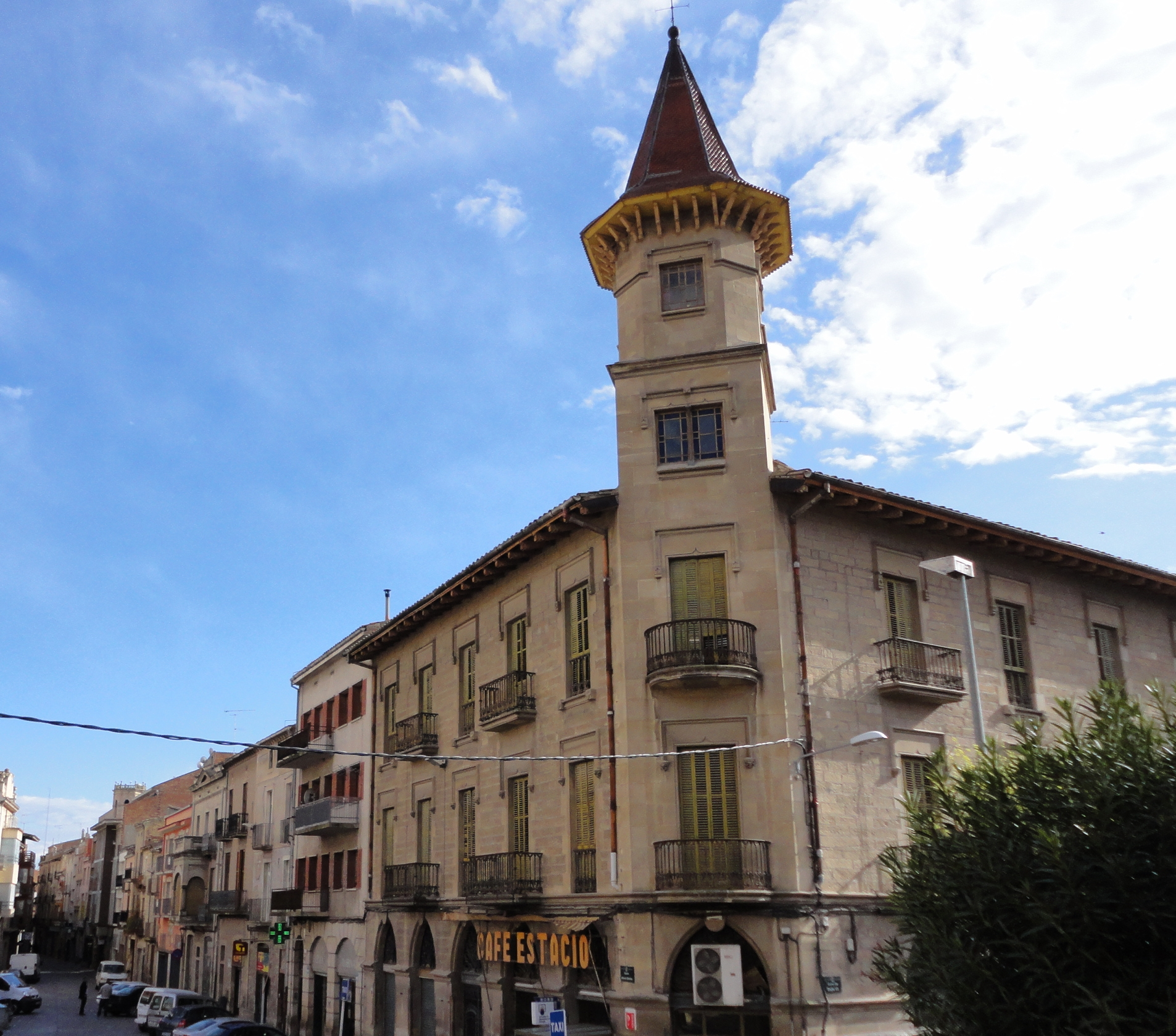 Building called Cal Maymó in Tàrrega, in the "Modernista" (Art Nouveau) style.